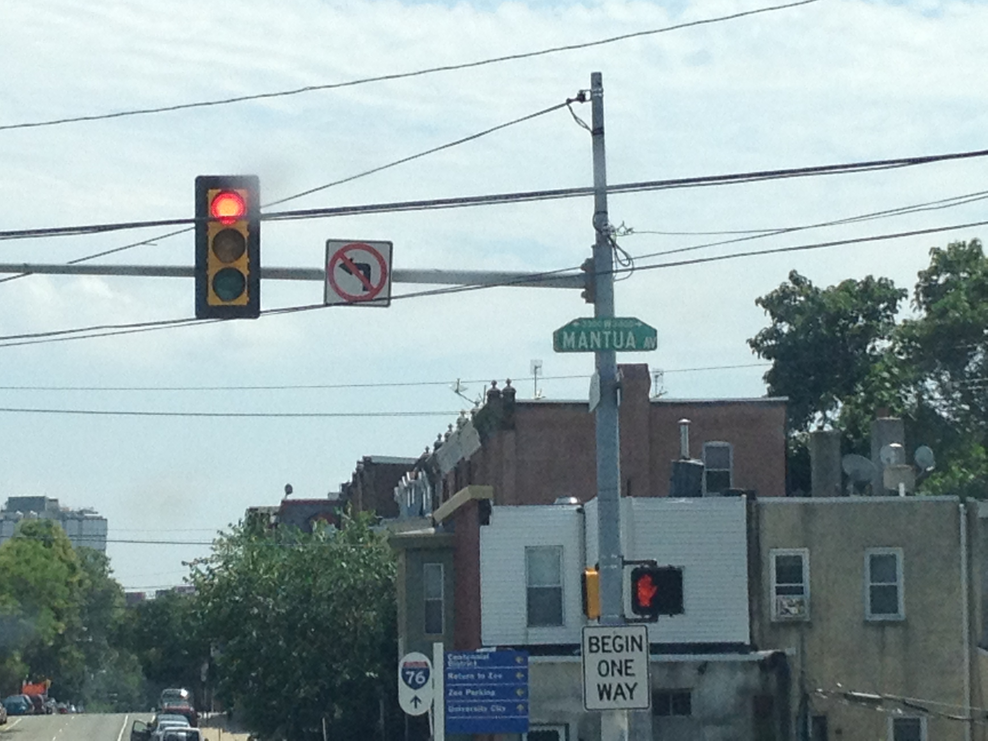 Mantua, Philadelphia neighborhood